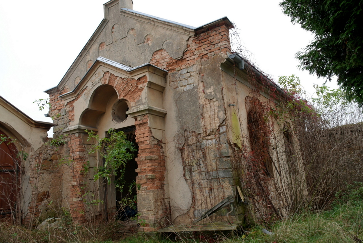 Jewish cemetery / newer one/ in fields near the road to Vrbka, Budyně nad Ohri. Founded in r. 1785 on the area of ​​2910 m2. Neo - Romanesque ceremonial hall from the second half of 19th. century.